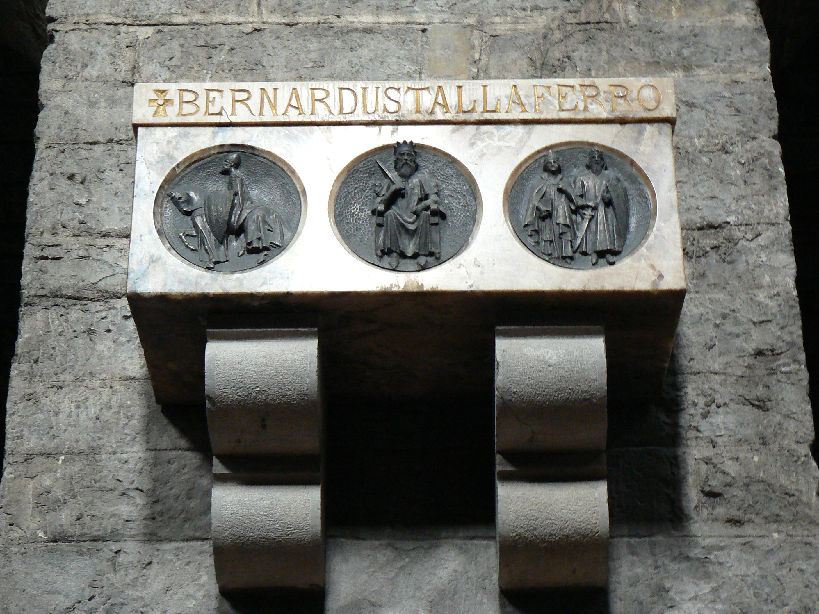 Bernardo Tallaferro